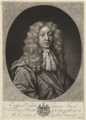 A portrait of Erasmus Smith (baptised 1611; died 1691), an English merchant, landowner and philanthropist in the field of education.